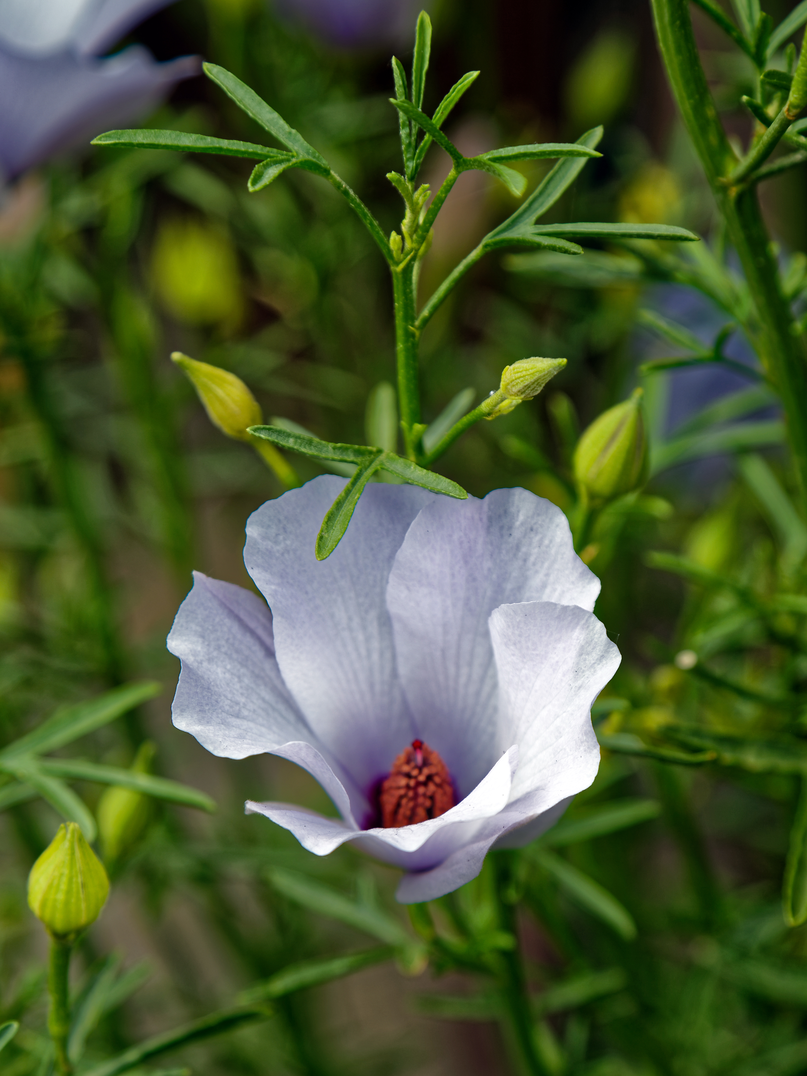 Alyogyne 'Ruth Bancroft' (Ruth Bancroft), a Malvoideae hybrid between parents Alyogyne huegelii (lilac hibiscus), and Alyogyne hakeifolia (red gynoecium hibiscus), originally and spontaneously hybridized in the Ruth Bancroft Garden at Walnut Creek, California. This example was bought in the Netherlands, and grown in an English cottage garden in the village of Boreham in Essex, England.Camera: Canon EOS 6D with Canon EF 24-105mm F4L IS USM lens.Software: RAW file lens-corrected, optimized and converted with DxO OpticsPro 11 Elite, and further optimized with Adobe Photoshop CS2.